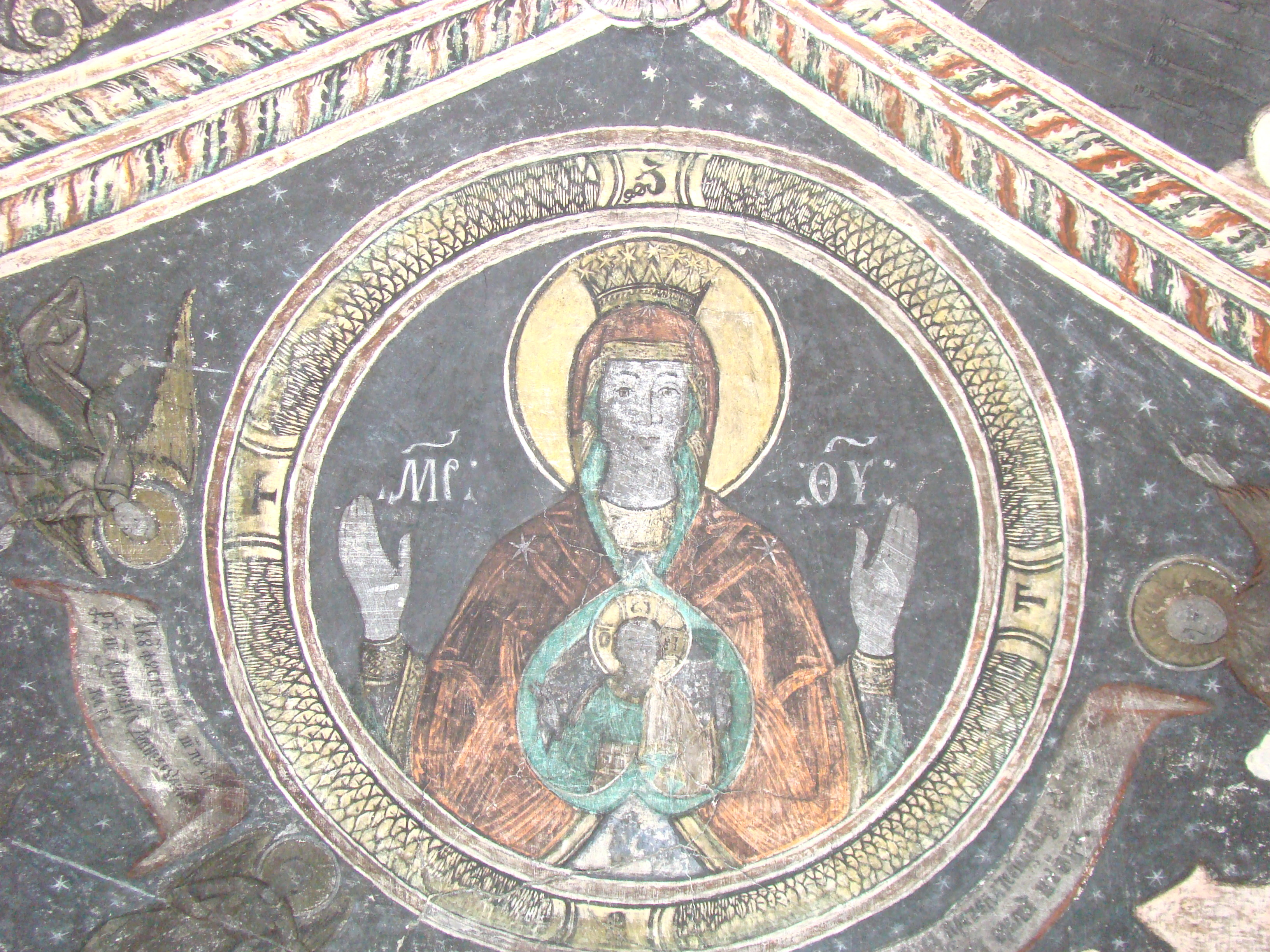 The church of the Descent of the Holy Spirit in Micești, Cluj county, Romania